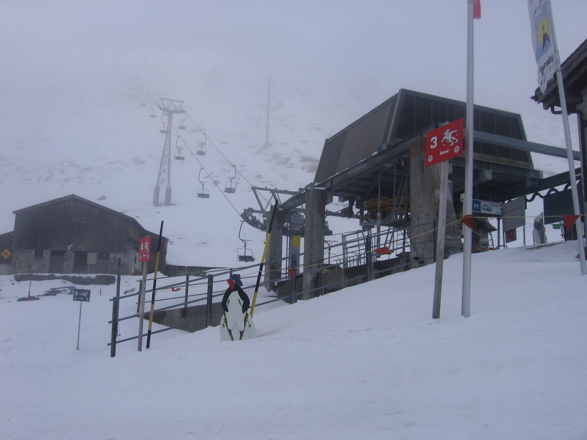 The bottom of the 2-man on Naetschen